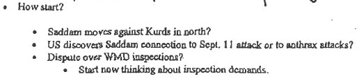 Excerpt from memo dated Nov 27 2001, cropped from File:Rumsfeld Memo.jpg